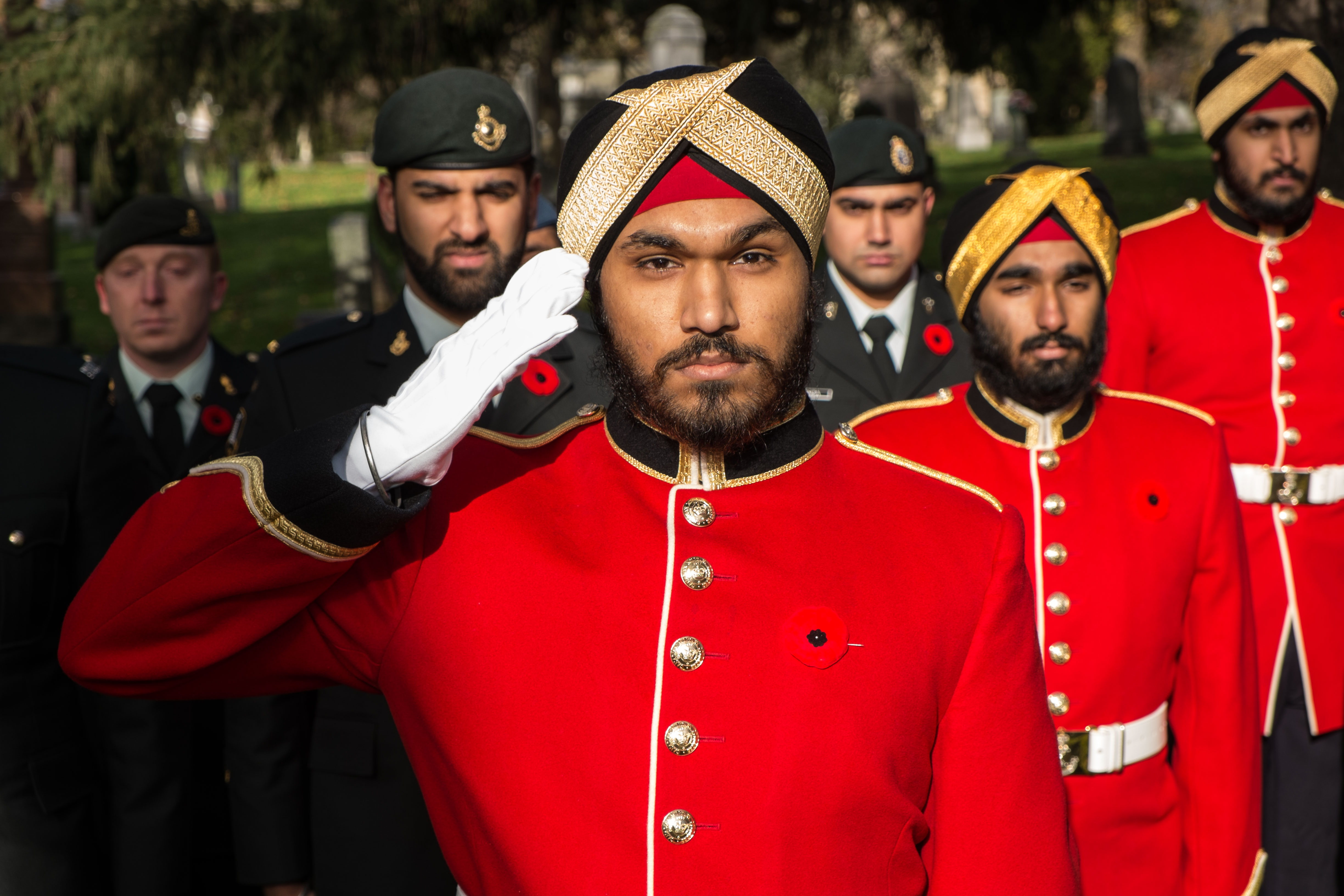 OCdt. Sarabjot Anand, OCdt. Sarbjeet Nijher and OCdt. Saajandeep Sarai represent Royal Military College of Canada at Sikh Remembrance Day 2013. OCdt. Sarabjot Anand led the military contingent at this ceremony. The guest of honour was Commander Timothy O'Leary, CD. He is the CO of HMCS York.